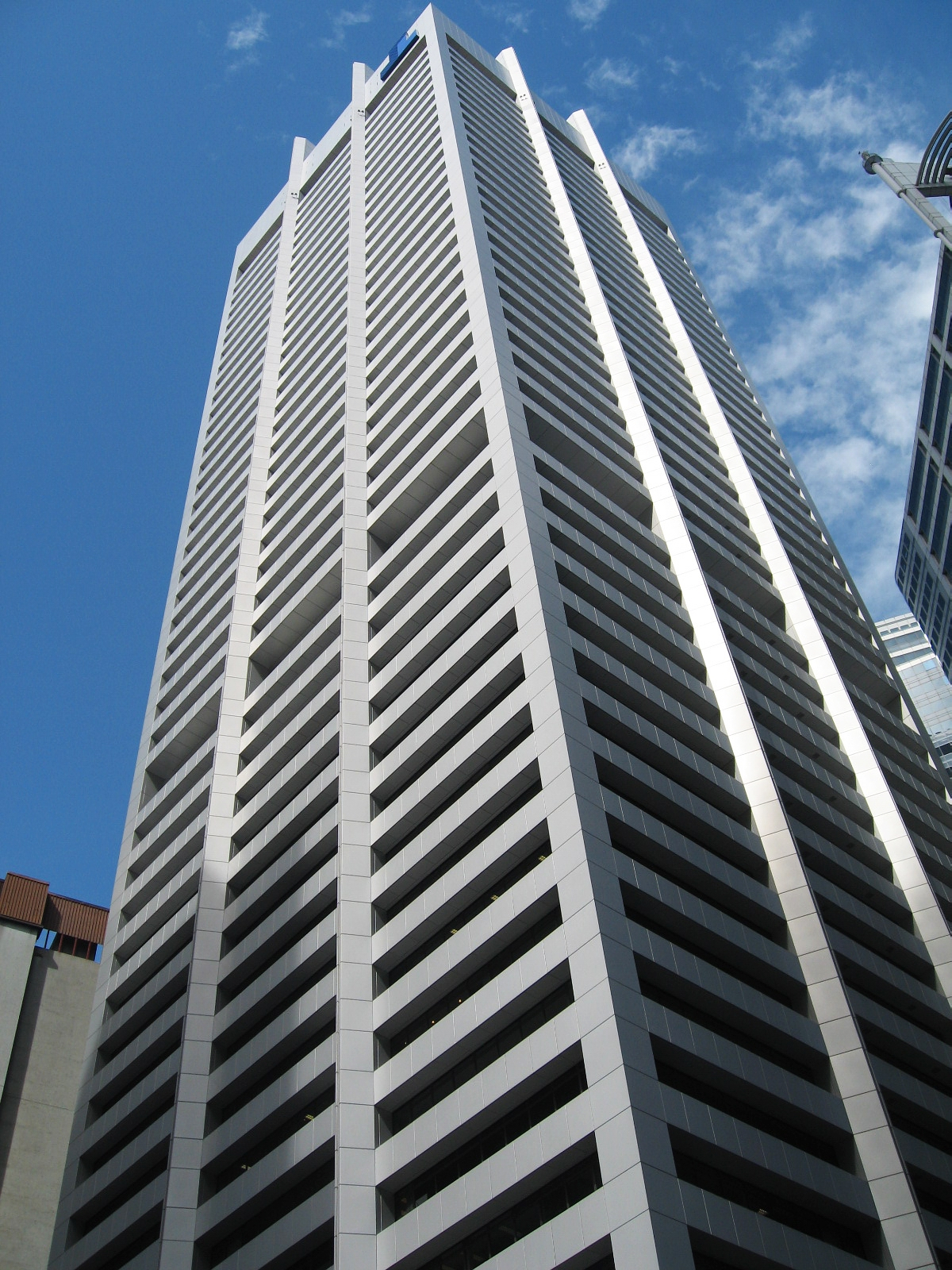 Singapore Land Tower at Raffles Place, Singapore.